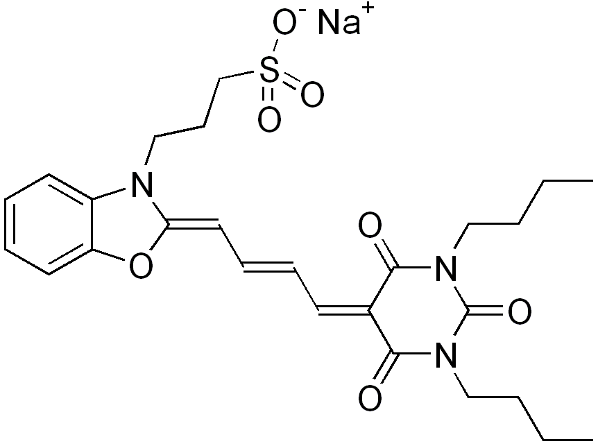 chemical structure of merocyanine dye